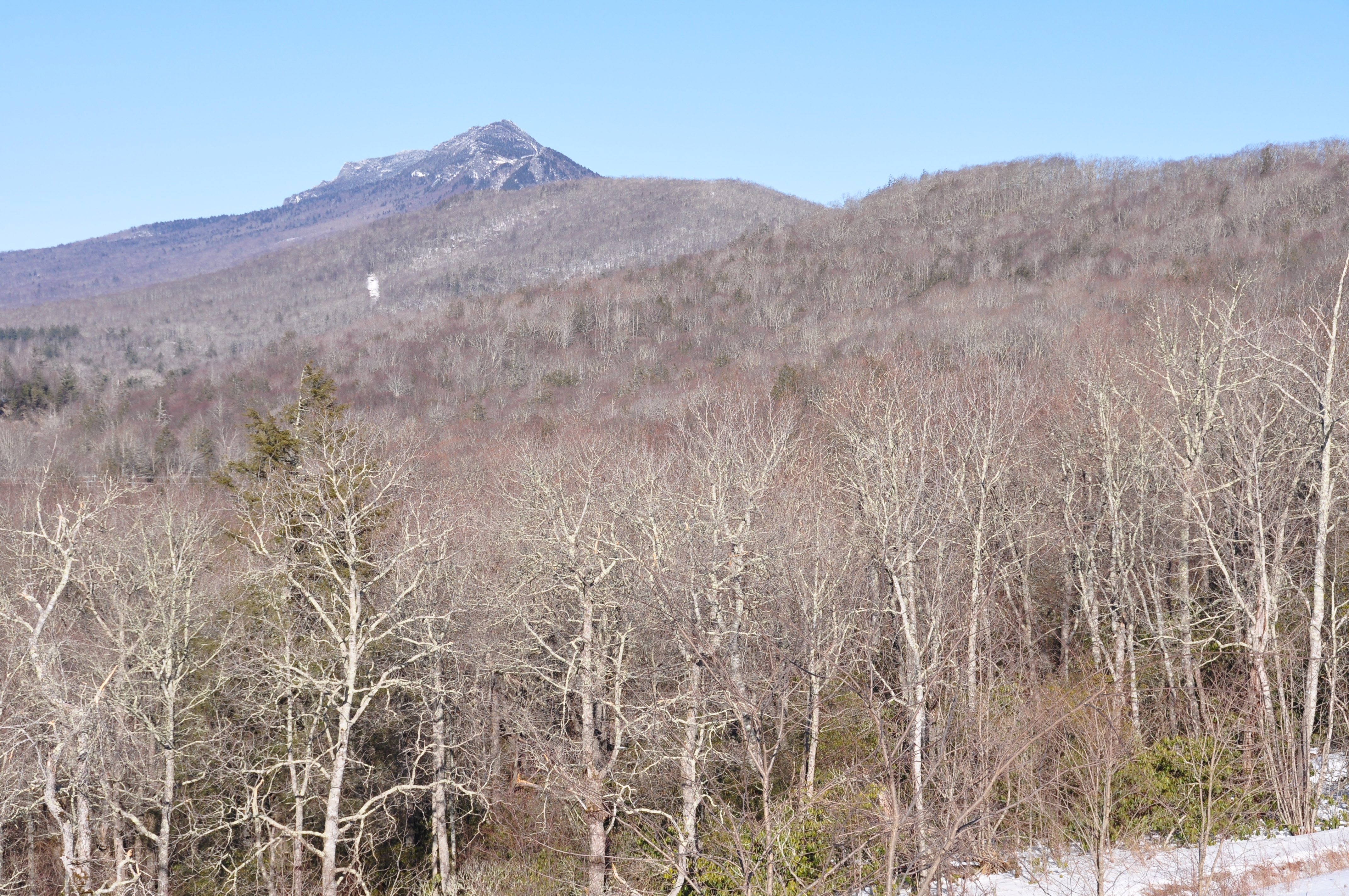 Picture of Grandfather and Pixie Mountains from Charles A. Cannon, Jr. Memorial Hospital, outside Linville, North Carolina.